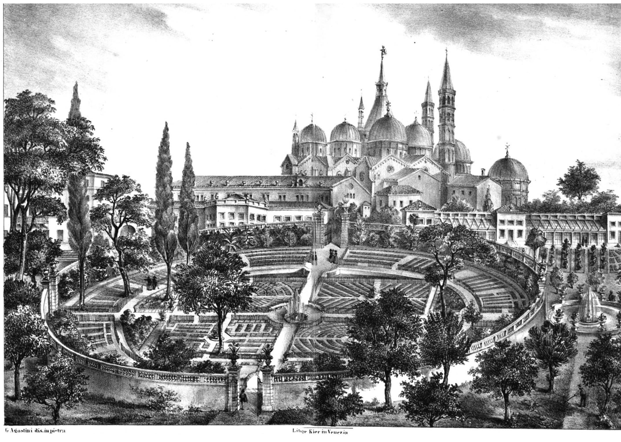 Padua Botanical Garden (Italian Orto Botanico di Padova), also known as Garden of the Simples (Orto dei Semplici). The garden was founded in 1545. In the background is the Saint Anthony basilica known as Il Santo.